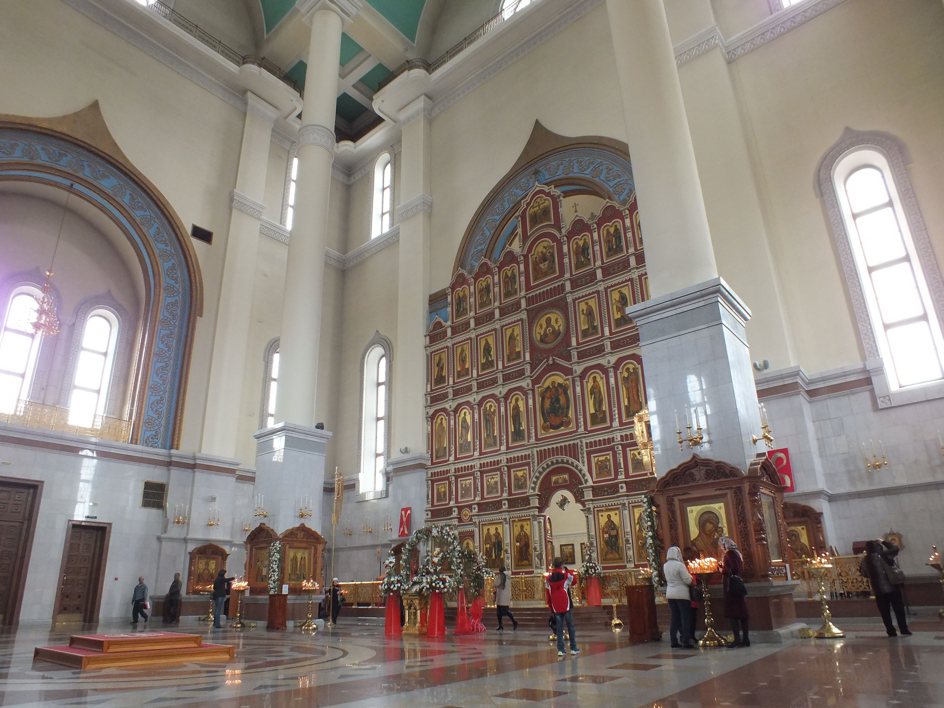 Cathedral of the Transfiguration (Khabarovsk)